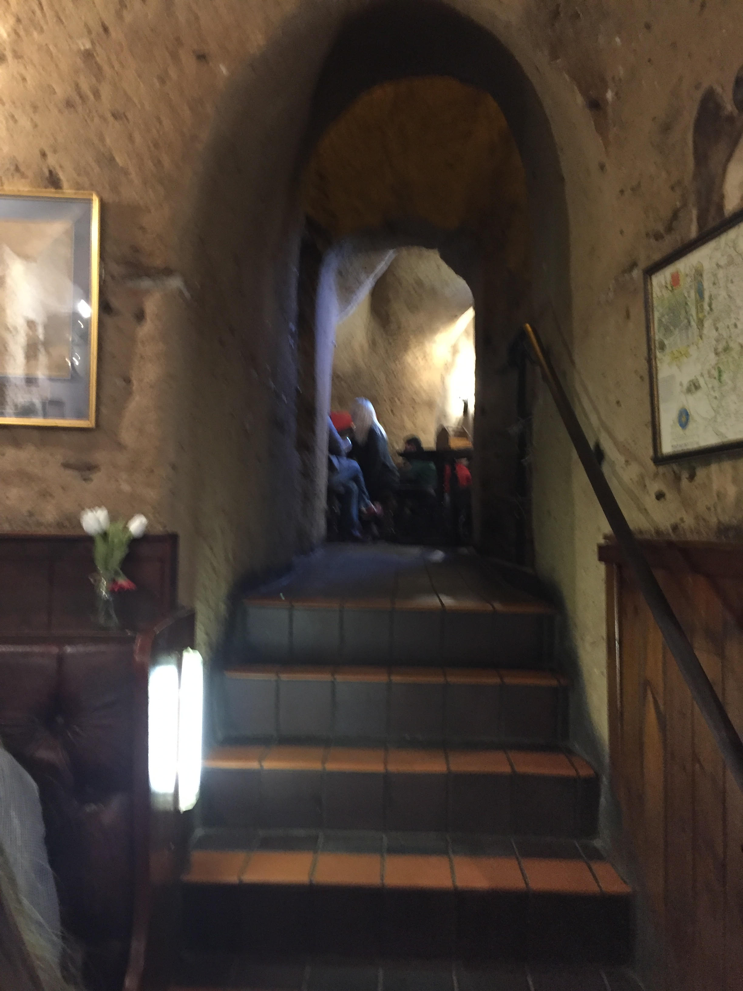 The interior of the Ye Olde Trip to Jerusalem Inn in Nottingham; it claims to be the oldest Inn in England dating back to 1189.